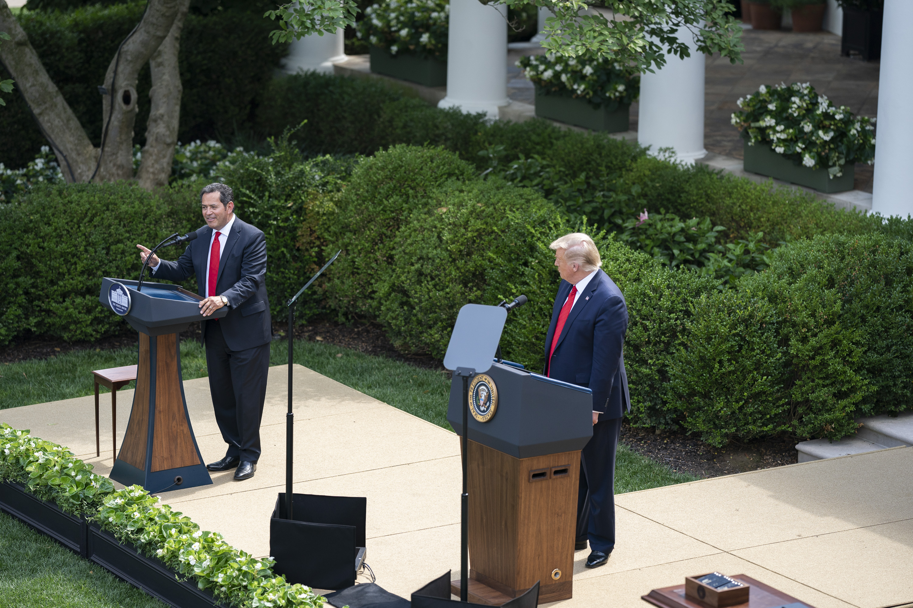 President Donald J. Trump listens as former New Mexico Lt. Governor John Sanchez delivers remarks prior to the signing of an Executive Order on the White House Hispanic Prosperity Initiative Thursday, July 9, 2020, in the Rose Garden of the White House. (Official White House Photo by Joyce N. Boghosian)